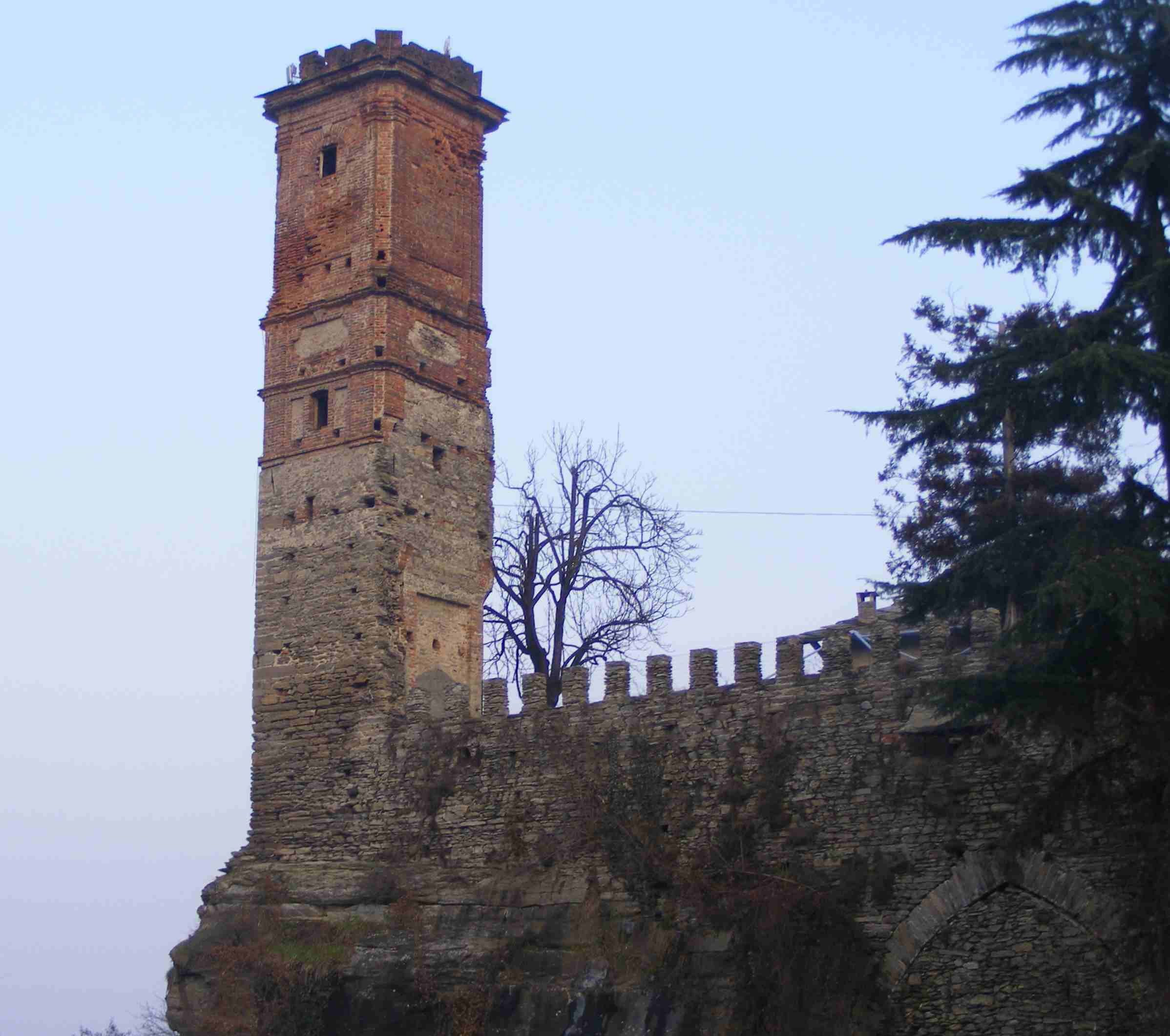 Barge (CN, Italy): the lower castle